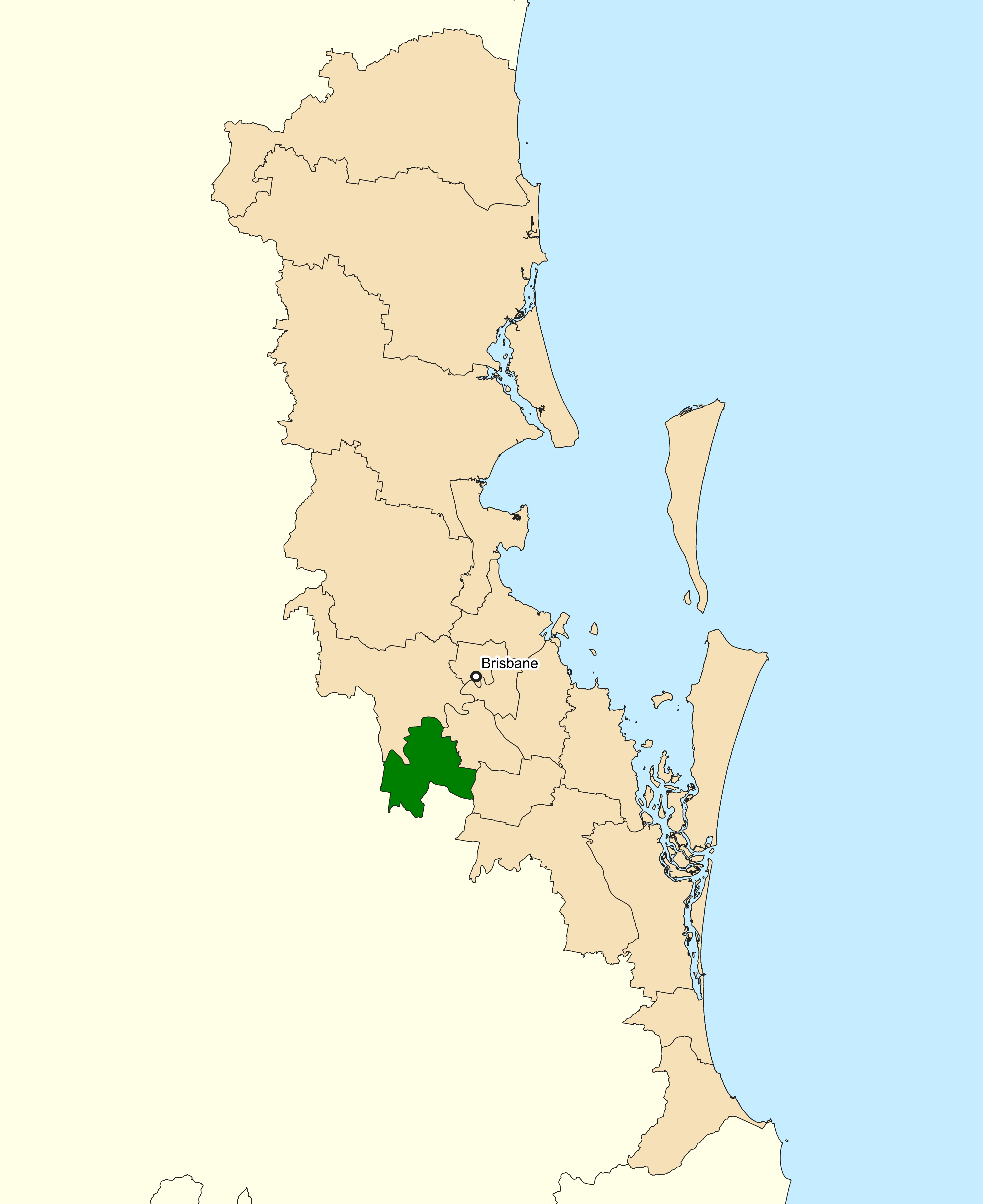 Location of the Australian federal electoral division of Oxley (dark green) in Greater Brisbane, Queensland as of the 2019 Australian federal election. Incorporates or developed using Administrative Boundaries ©PSMA Australia Limited licensed by the Commonwealth of Australia under Creative Commons Attribution 4.0 International licence (CC BY 4.0).